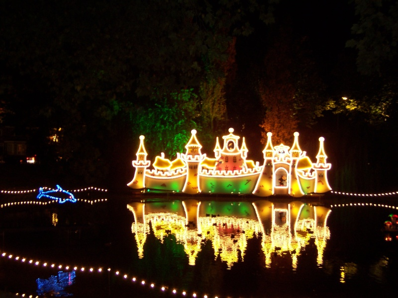 The Hendrik de Keyzerplein in Eindhoven, Netherlands during the yearly Lichtjesroute event.